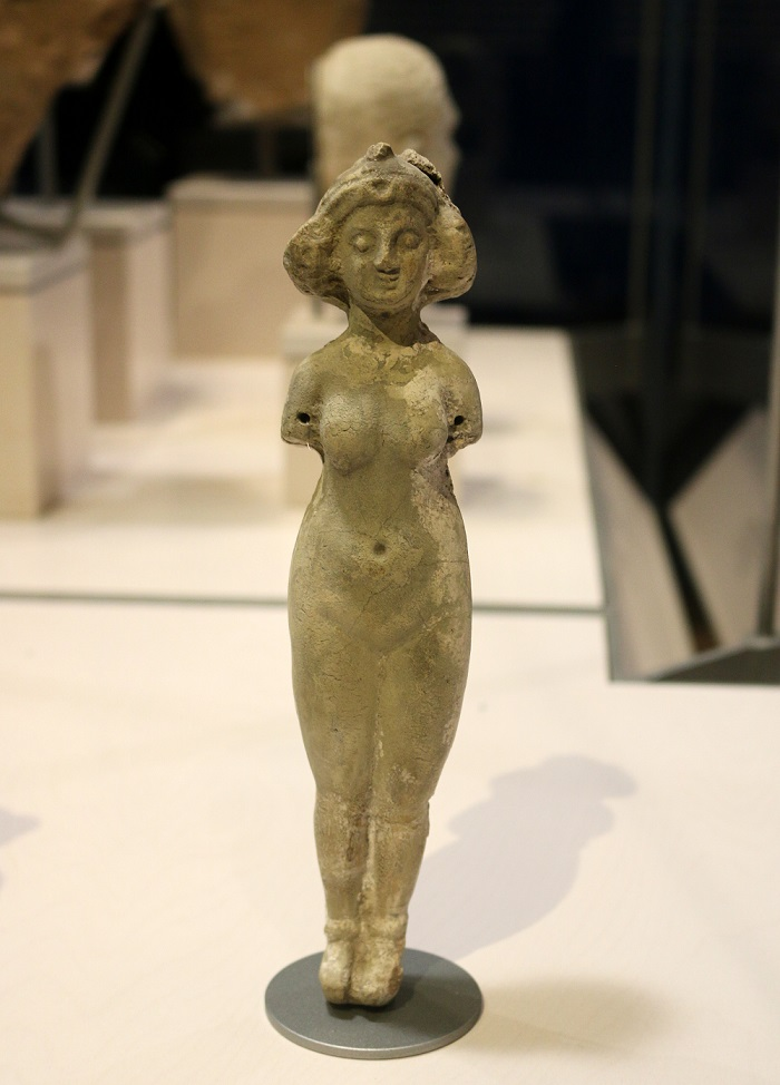 Naked Woman from Persia - Parthian Era; 200-100 BC - National Museum of Antiquities, Leiden, Netherlands. Photo by Persian Dutch Network